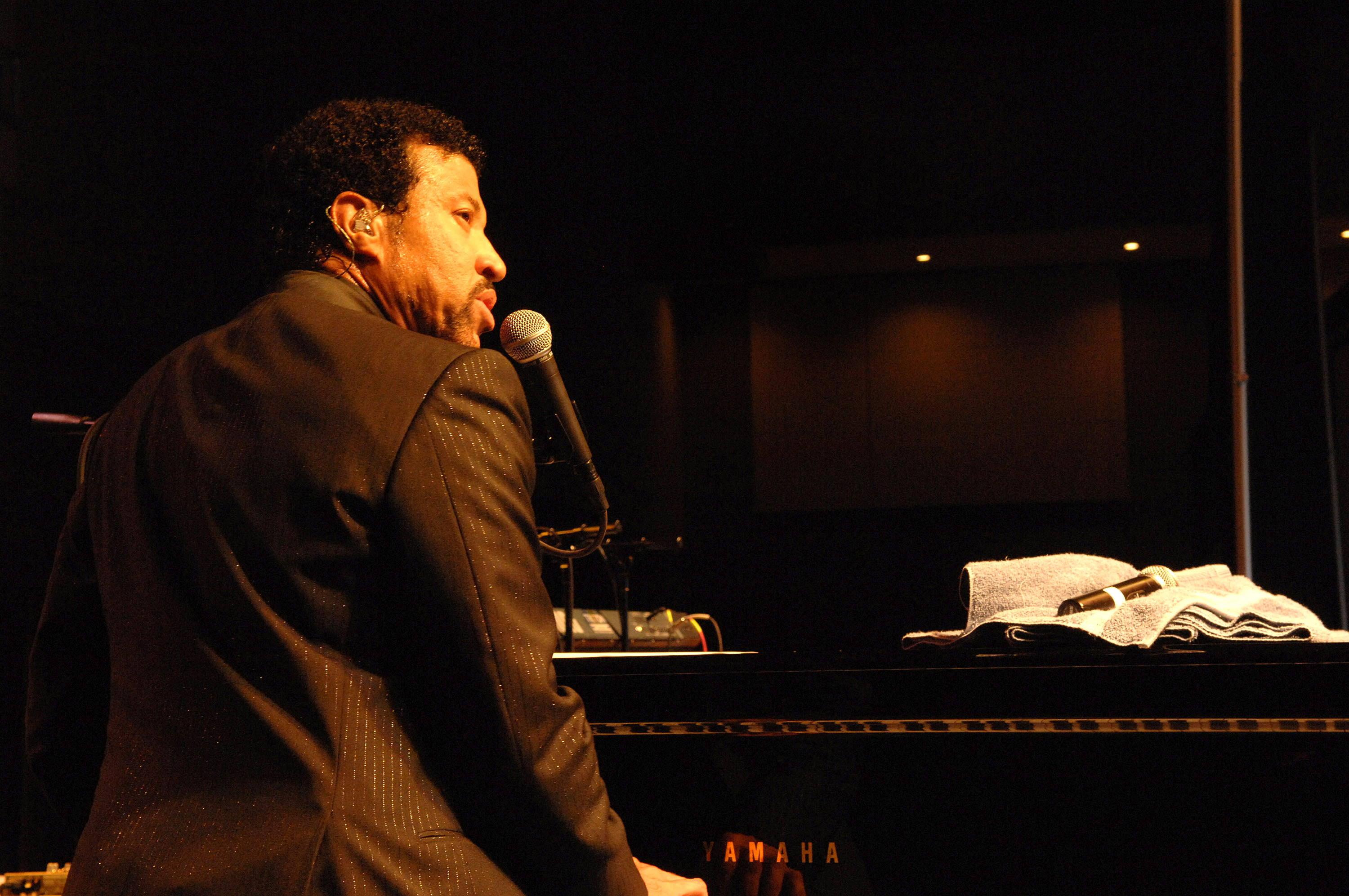 Lionel Richie performed for the Tuskegee Airmen, their families, friends and fellow servicemembers to celebrate the grand opening of the Tuskegee Airmen National Historic Site, Oct. 11, 2008, at the new Renaissance Hotel in Montgomery, Ala. Moton Field in nearby Tuskegee, Ala., was the only primary flight training facility for the first African American pilot candidates in the Army Air Corps, who became known as the Tuskegee Airmen. U.S. Air Force photo by Staff Sgt. Christing Jones